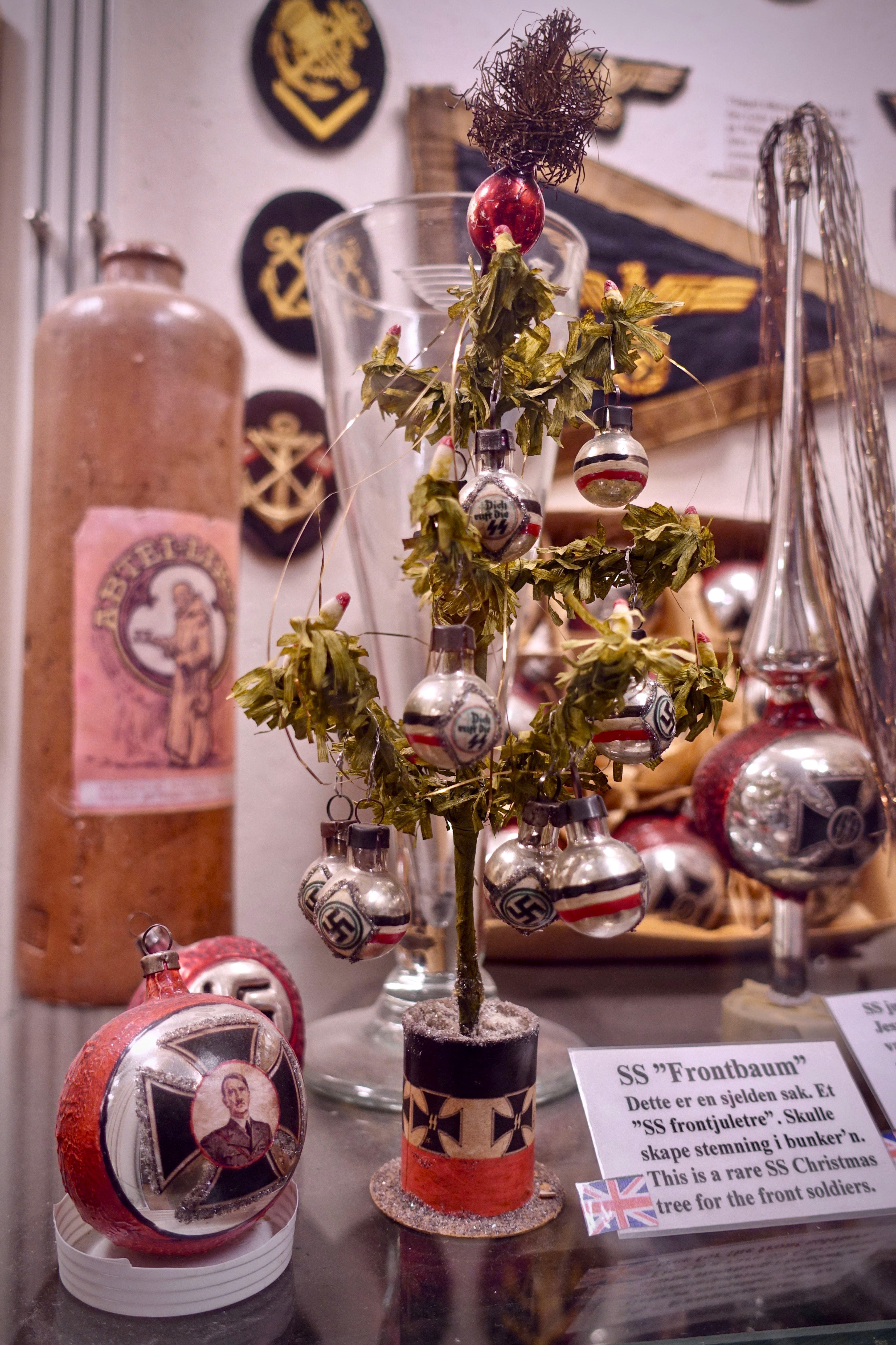 German SS Frontbaum ('battlefront tree'), a small artificial tabletop Christmas tree from the Third Reich period, produced for German front soldiers in World War II, with Nazi symbols as Weihnachtsbaumschmuck (Christmas ornaments), i.e. baulbes decorated with swastikas, SS runes (and the text Dich ruft die SS, 'SS calling you'), the German Reich's national colours red, white and black, etc. Also bigger baulbe with Prussian iron cross and Hitler portrait, and a tree-topper. On the wall are uniform badges and pennant for Kriegsmarine. In Nazi Germany, attempts were made to bring the traditional German celebration of Christmas in line with Nazi ideology. The commemoration of Jesus' birth as the Jewish Messiah was troubling for some members of the anti-semitic Nazi party NSDAP. Between 1933 and 1945, government officials attempted to remove these aspects of Christmas from civil celebrations and concentrate on cultural pre-Christian aspects of the festival. However, church and private celebrations remained Christian in nature.From the exhibitions at Lofoten World War 2 Memorial Museum (Lofoten Krigsminnemuseum) in Svolvær, Norway Photo taken on 8 May 2019. German Nazi era Christmas baulbe decorated with portrait of Göring, displayed in a cigar box also honouring Feld Marschall Hermann Göring.